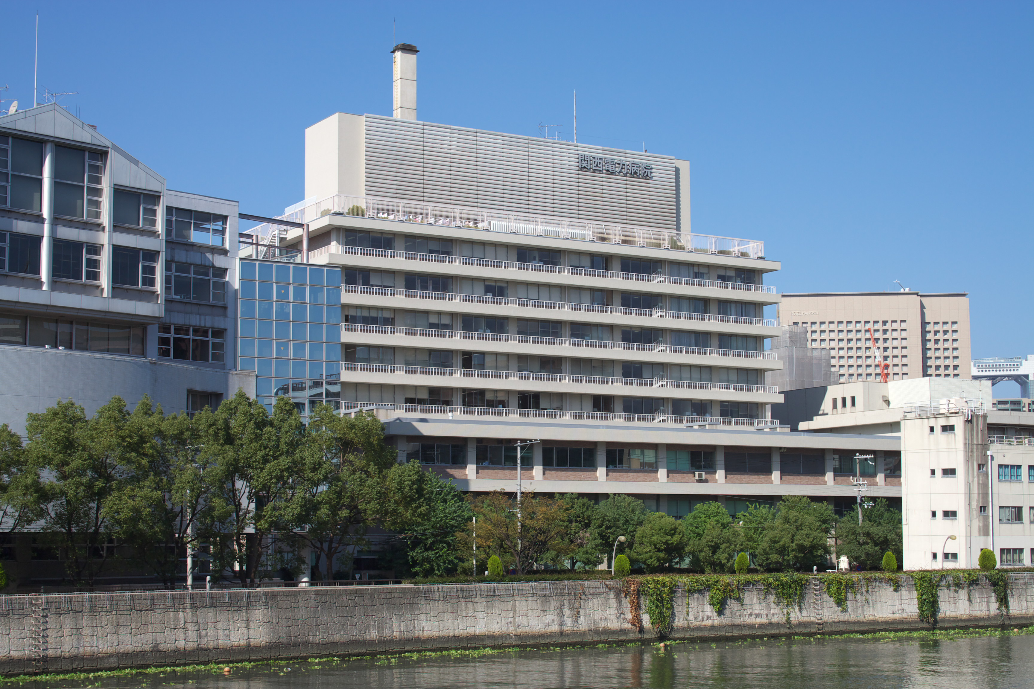 Kansai Denryoku Hospital (Osaka, JAPAN)